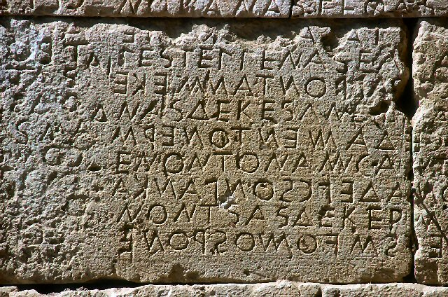 Gortys laws inscription from Crete, 5th century BC